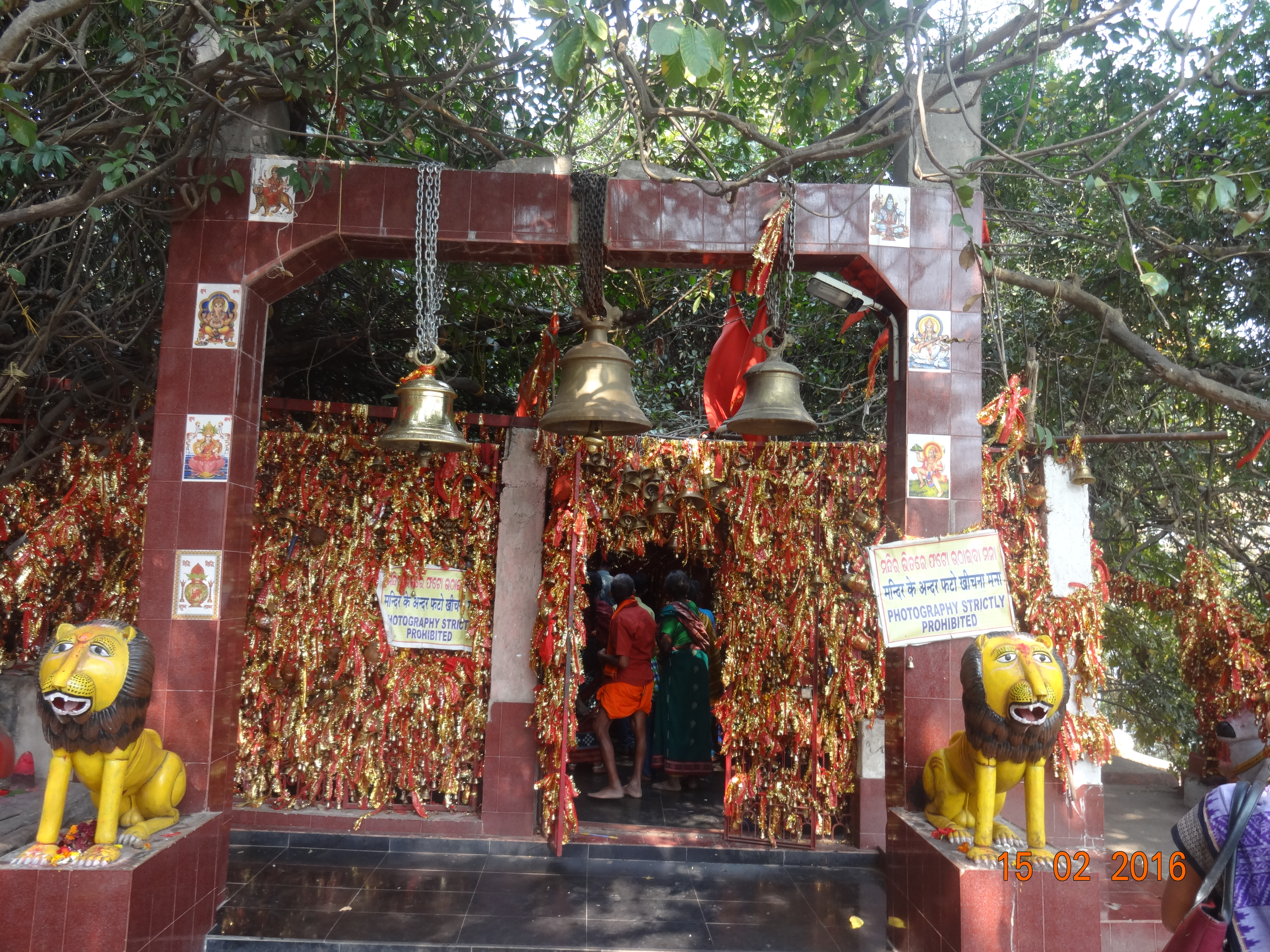 Maa Ghanteshwari temple is a temple in the vicinity of Sambalpur city in Odisha, India